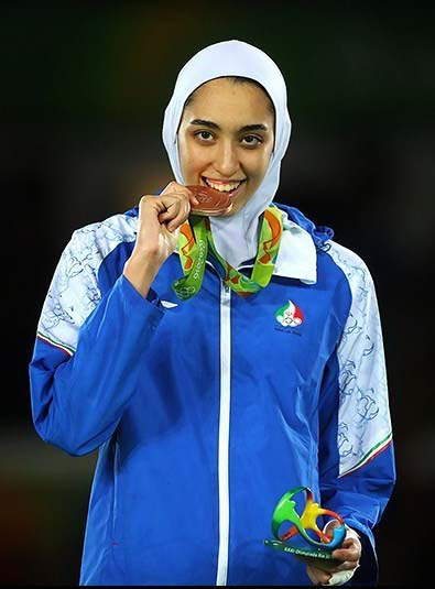 Kimia Alizadeh from Iran won bronze medal in Taekwondo at the 2016 Summer Olympics